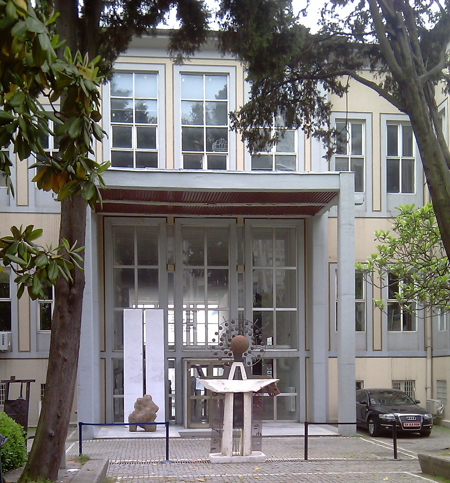 Mimar Sinan University of Beauty Arts Istanbul, entrance.